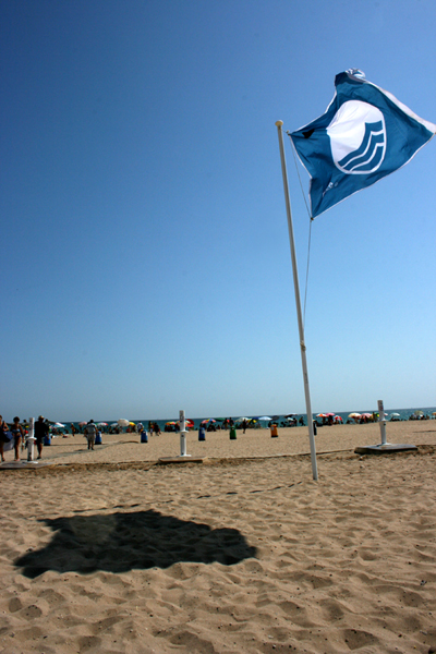 Beach of El Altet (Alicante, Spain), with the blue flag (international certificate of quality).